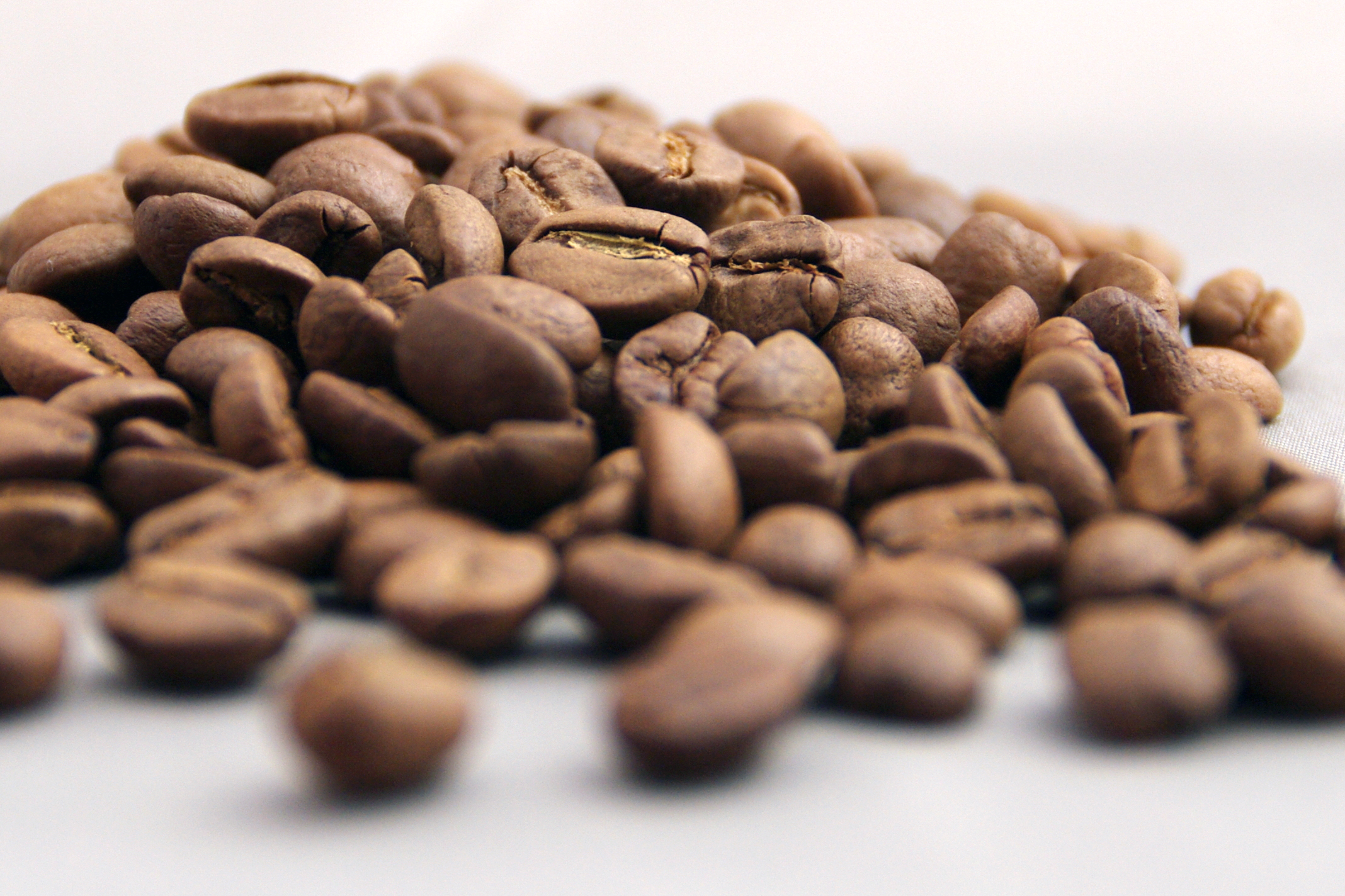 beans Coffee arabica